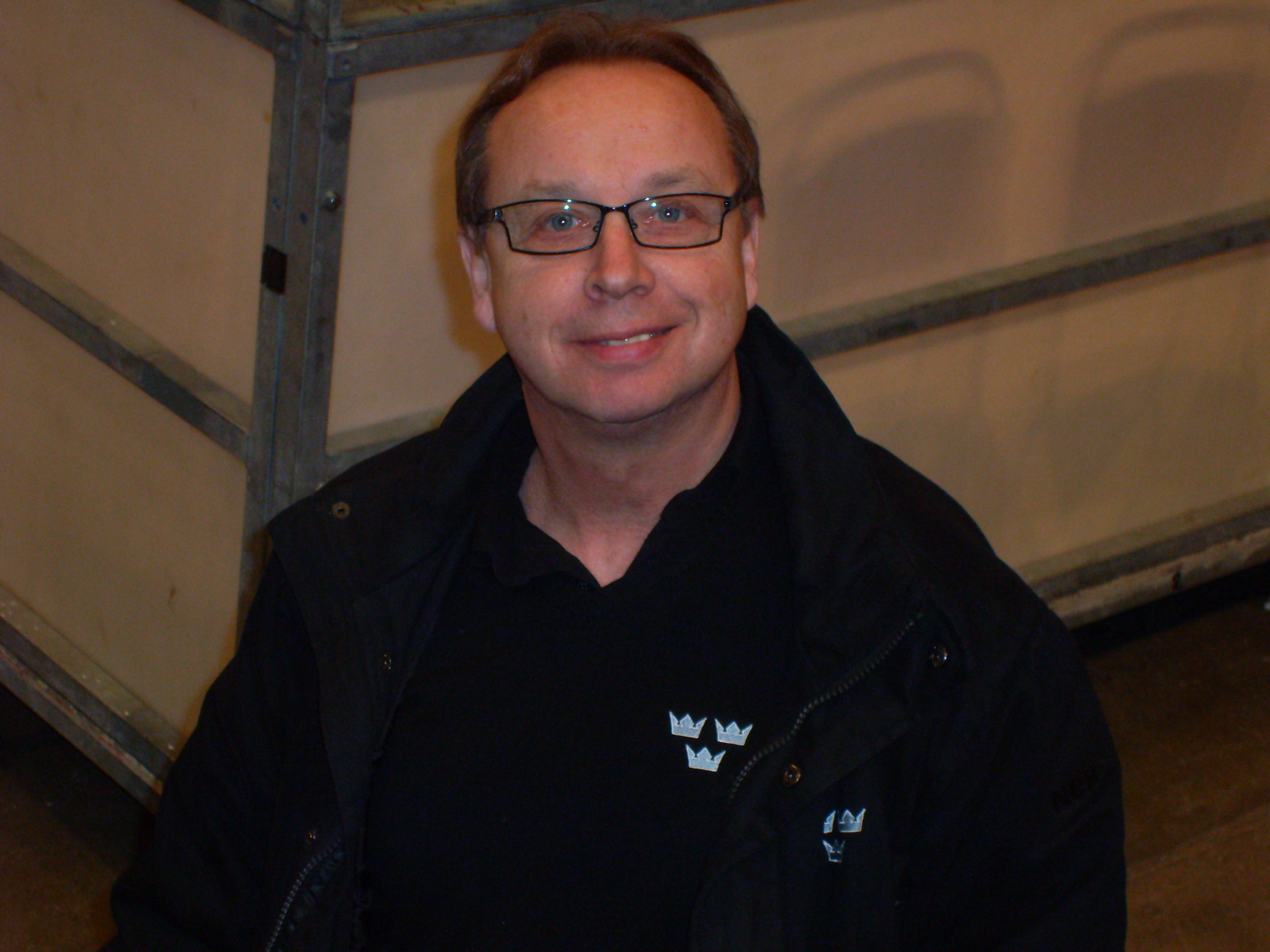 Pär Mårts, Swedish ice hockey coach.